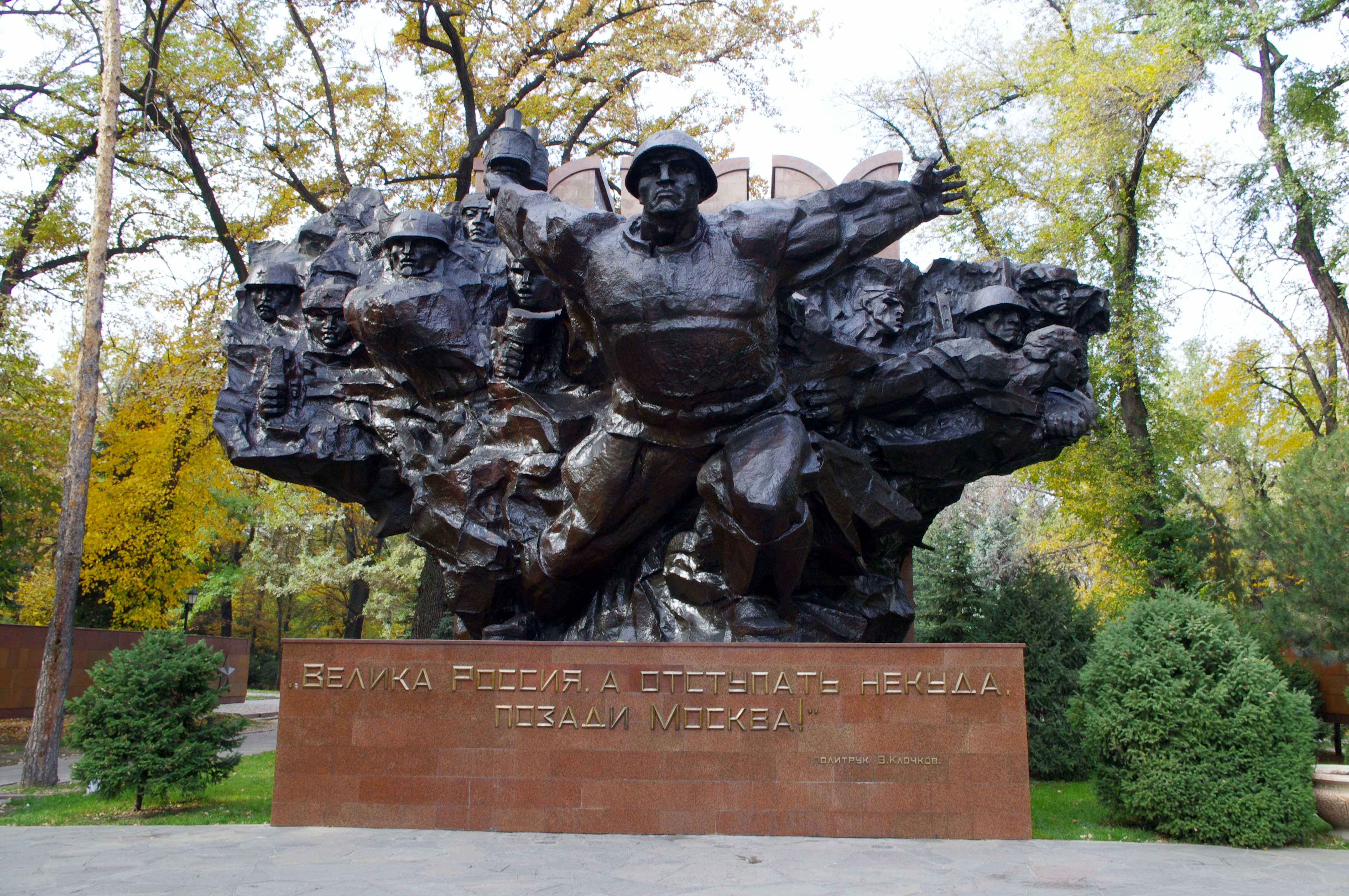 World War II monument "Feat" in Park of the 28 Panfilov Guardsmen, Almaty (Kazakhstan). The description: "Great Russia but will never turn back. Moscow is behind us!" (Russian: "Велика Россия, а отступать некуда. Позади Москва!").